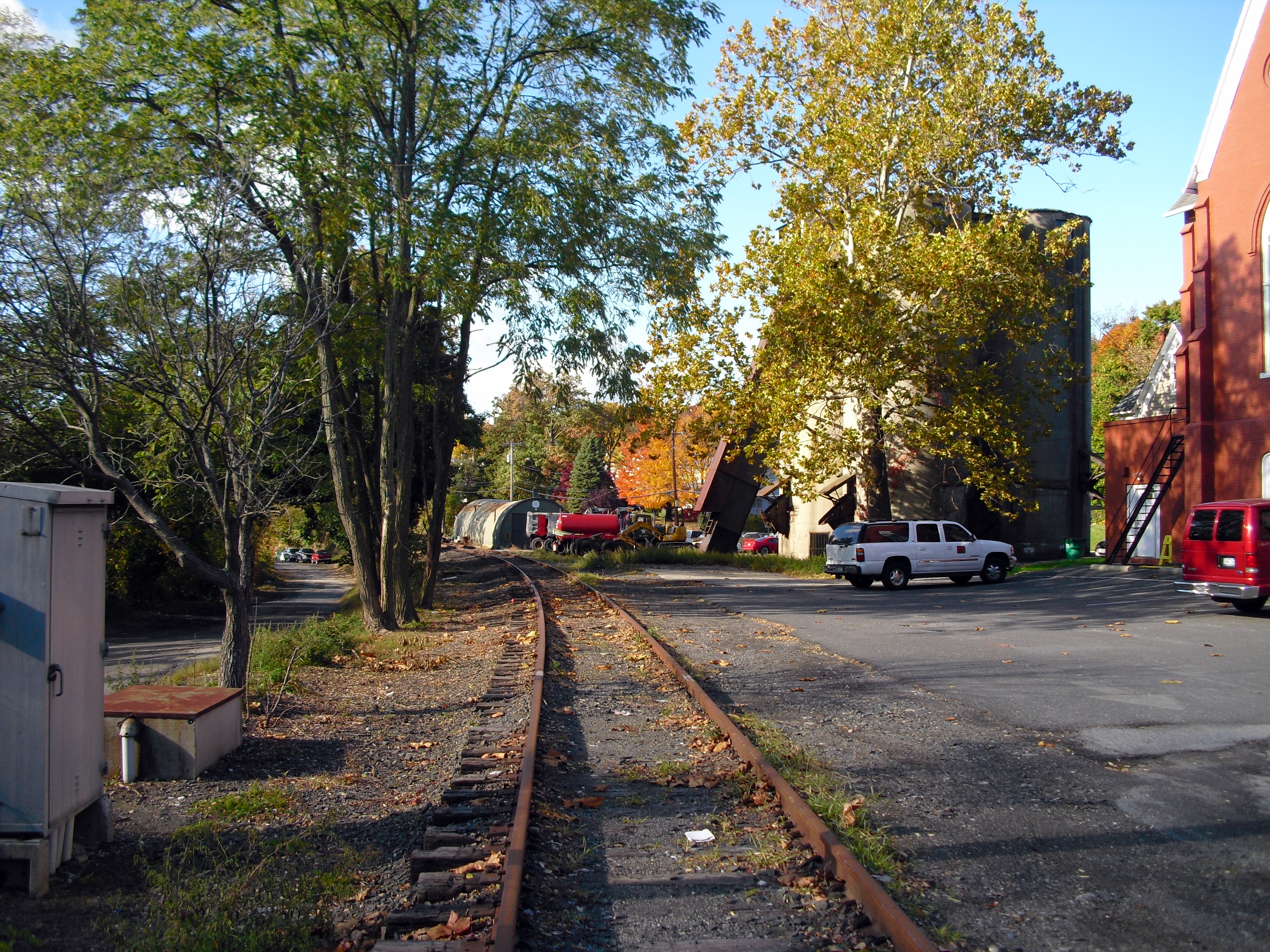 The Beacon Line in Beacon, NY, at its intersection with Churchill St., facing southwest. October 22, 2010.